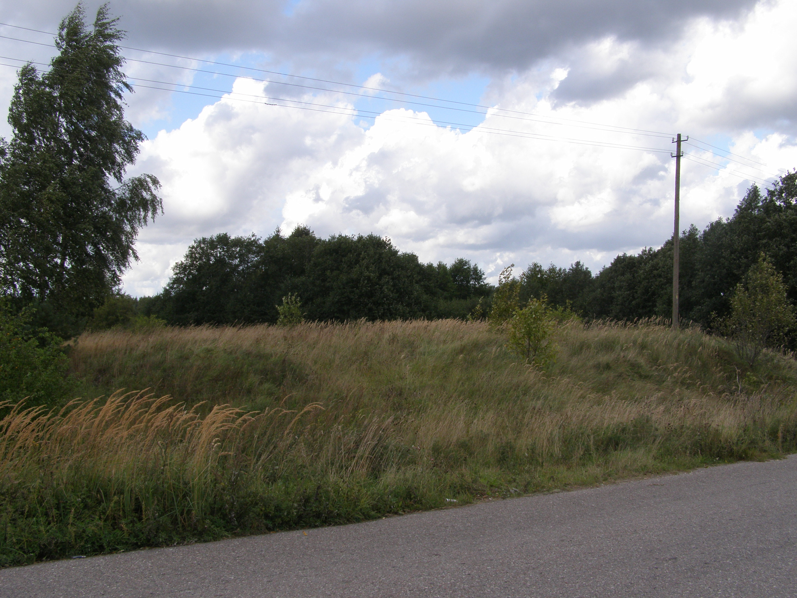 Tūbausiai ancient settlement, Kretinga District Municipality, LithuaniaLietuvių: Tūbausių senovės gyvenvietė, Kretingos rajono savivaldybė, Lietuva